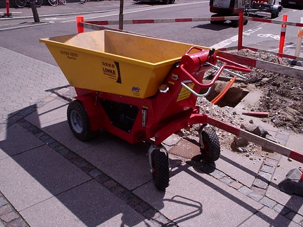 Walk-behind Dumper